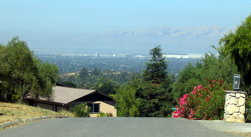 View of Silicon Valley from Julietta Lane, facing eastbound towards Altamont Road, in Los Altos Hills, California.